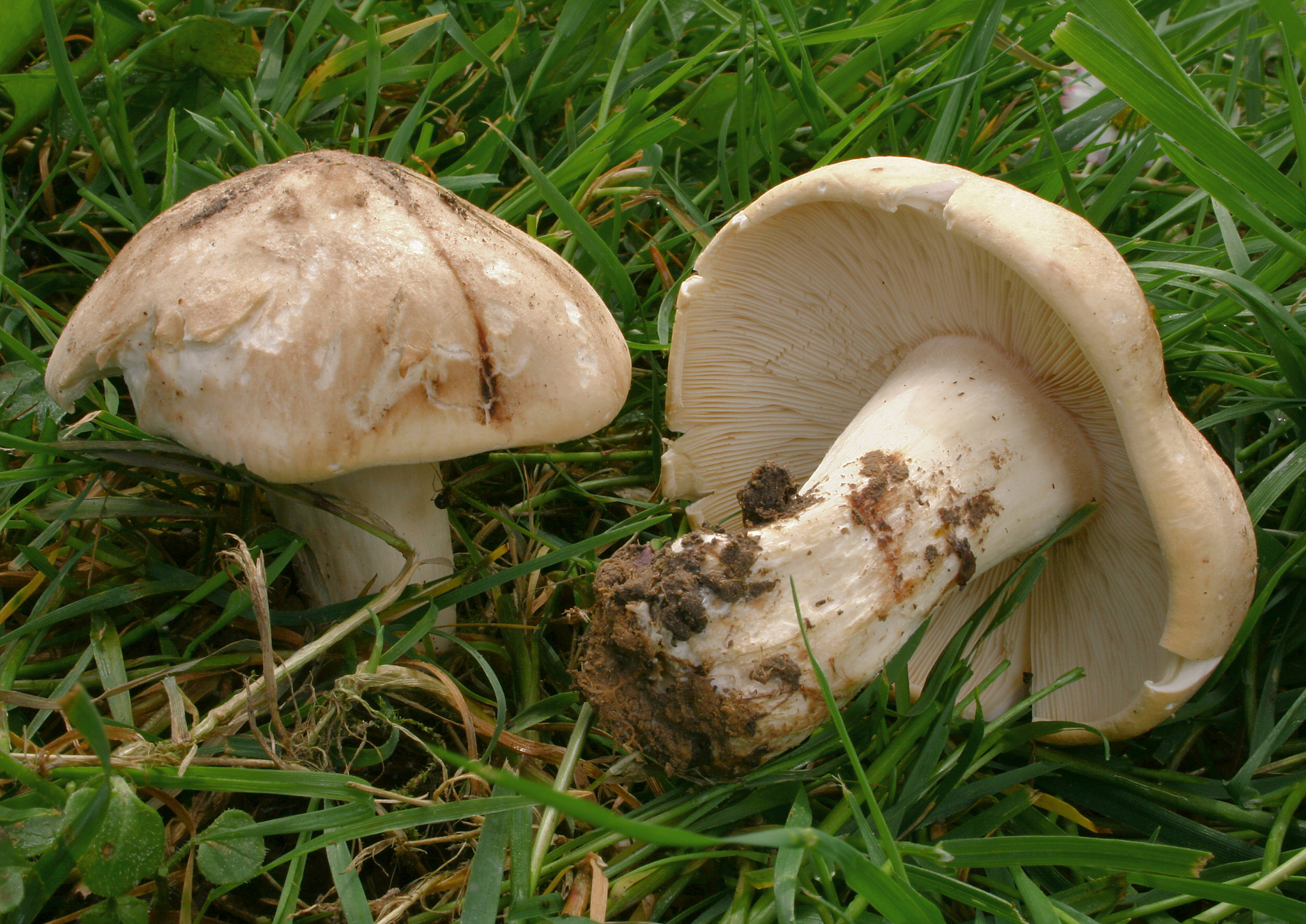 Calocybe gambosa (= Tricholoma gambosum), St. George's mushroom, in a park near Massy, France.